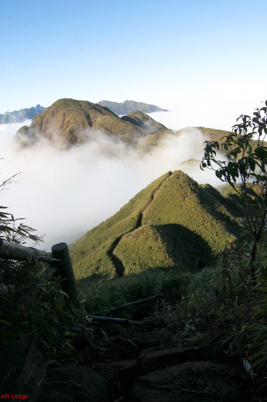 Hoàng Liên Sơn mountain range from the ascent route to Fansipan.